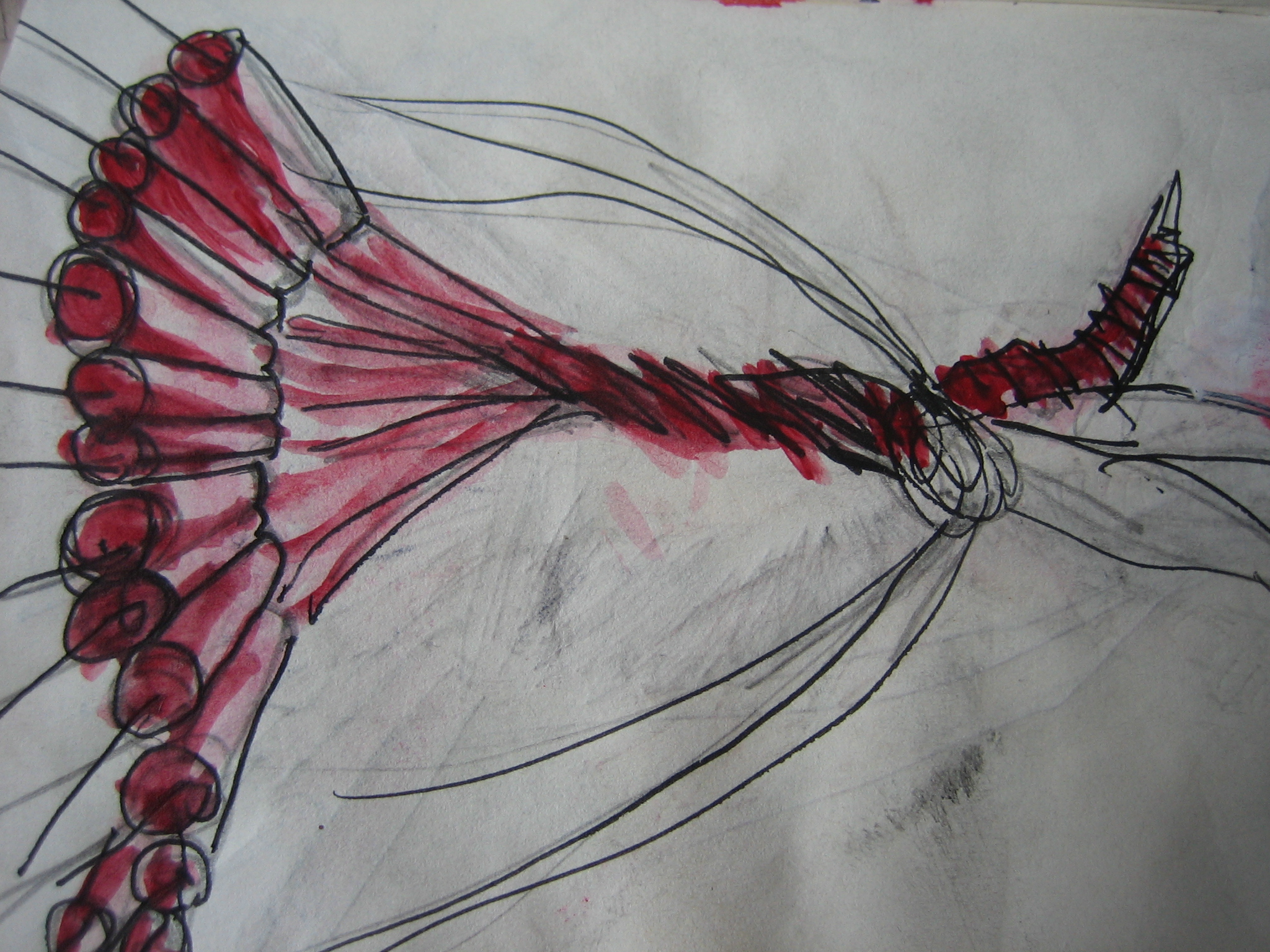 WikiAfrica Art - A site specific artwork for Wikipedia: Henri Sagna